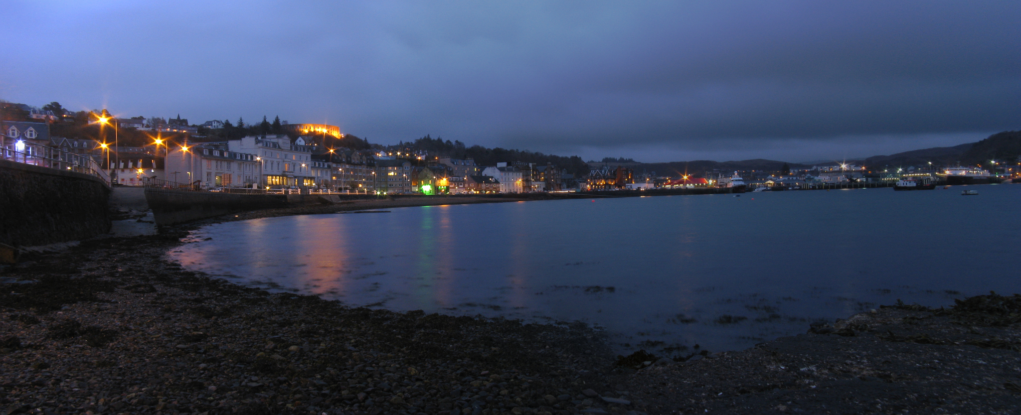 Night time panorama across Oban bay